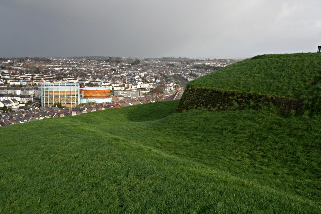 Defensive Ditch around Mount Pleasant Redoubt This ditch and wall surrounds the strongpoint on the top of a hill near Stoke Village. This fortified point was first built in 1779. It is now part of a public park and known locally as The Blockhouse.